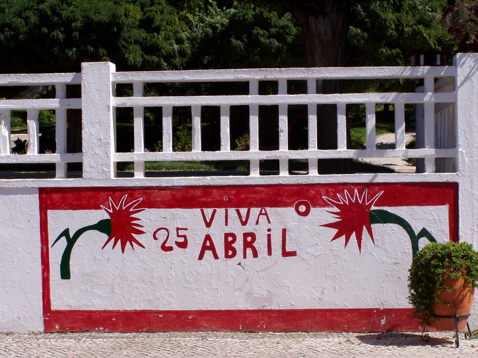 Mural depicting "Viva o 25 de Abril" ("Long live the 25 April Revolution.") Coruche, Portugal.